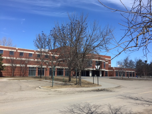 Wascana Rehabilitation Centre, Regina, Saskatchewan